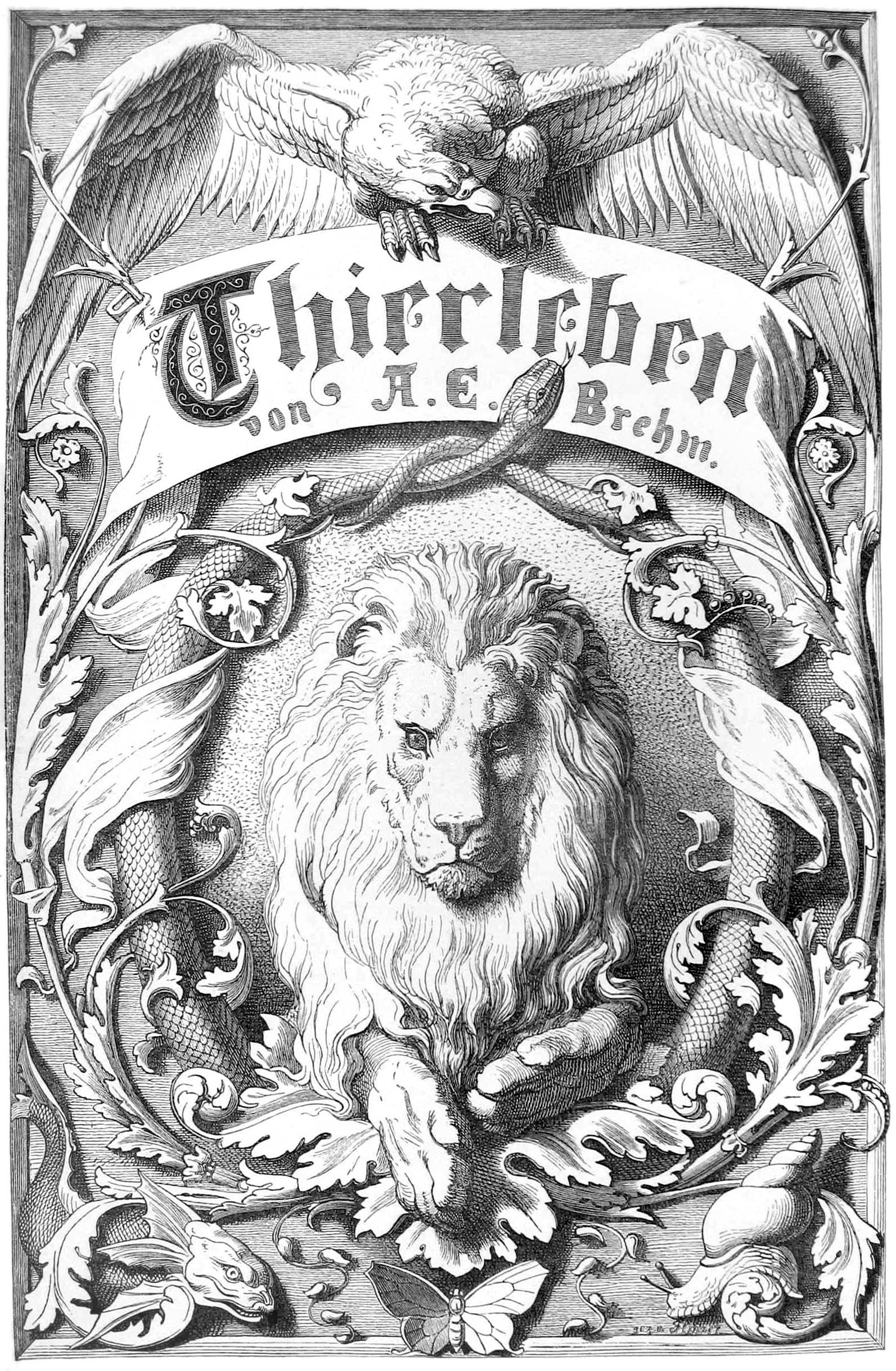 Frontispiece by the illustrator Fedor Flinzer from Alfred Edmund Brehm's Thierleben, published in the first volume of the second edition of the scientific reference book from 1886.